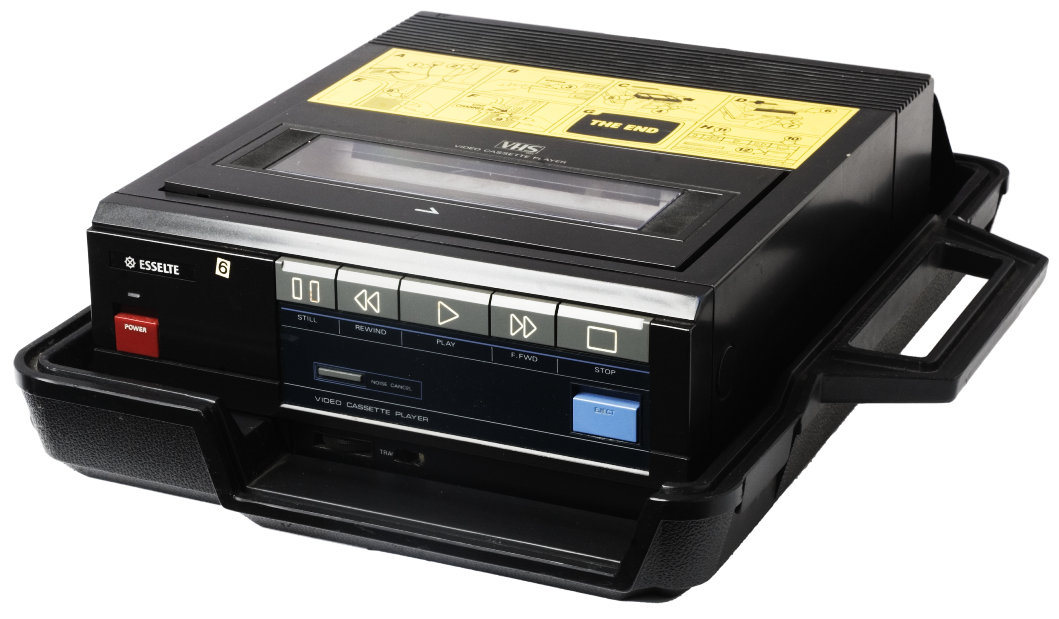 A moviebox, devised by Esselte in Sweden and produced 1980-1999 by Funai in Japan. The item belongs to the Swedish National Museum of Technology (Tekniska museet), collection ID TEKS0047523